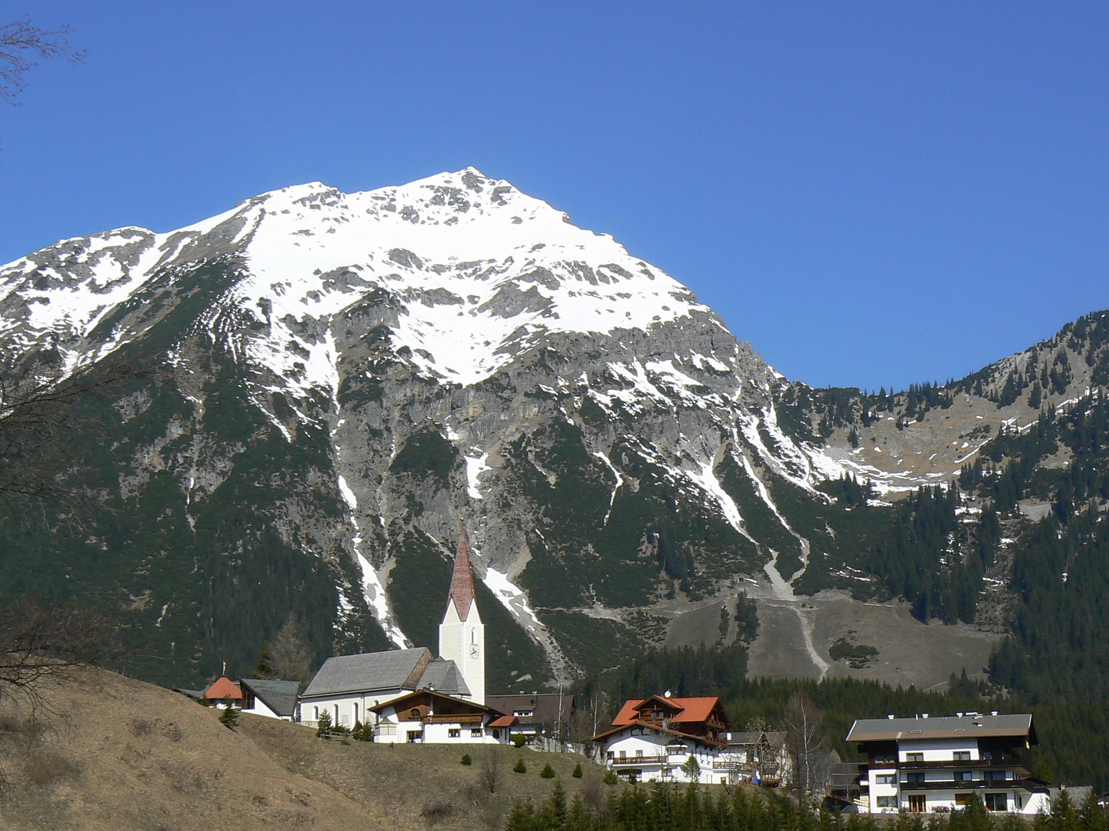 Moutain landscape from Berwang, Tirol, Austria